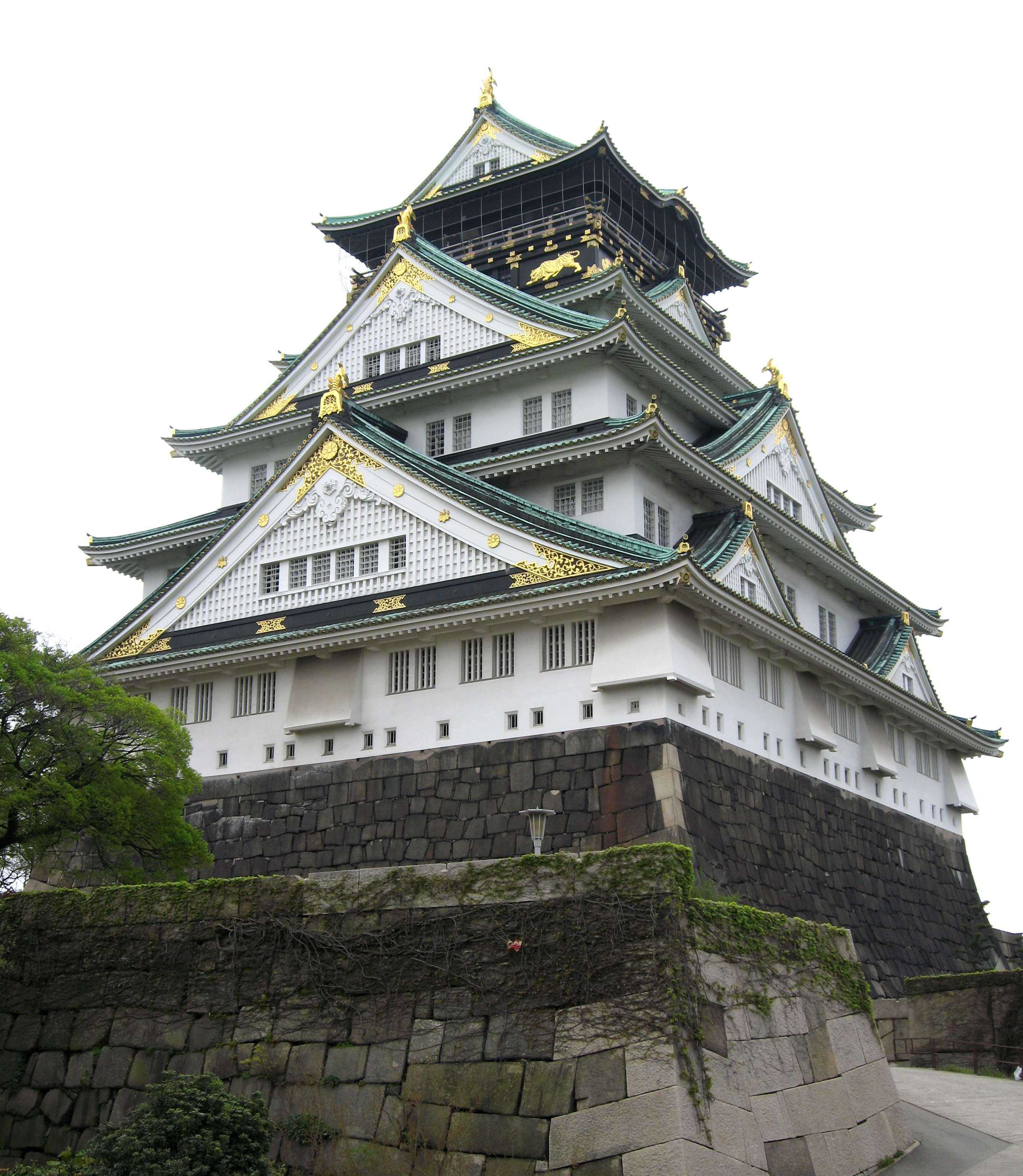 Osaka Castle Osaka-jo 大阪城